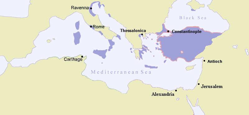 This image was made by me. It is based on ByzantineEmpire717AD2.PNG Bigdaddy1204 13:46, 20 December 2006 (UTC)